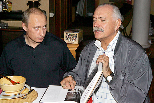 Nikita Mikhalkov, a Soviet / Russian film director and actor.